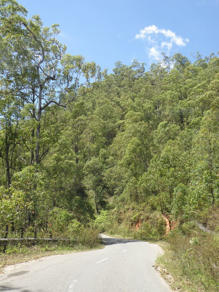 Extensive Eucalyptus urophylla, a montane Eucalypt, about 25 km souh of Dili along the Aileu Road. Suco Madabeno